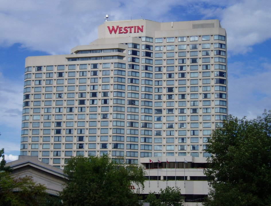 Taken by SimonP in August 2005